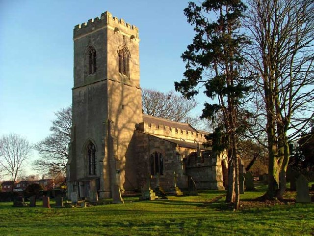 St Peter's parish church, Hayton, Nottinghamshire, seen from the southwest